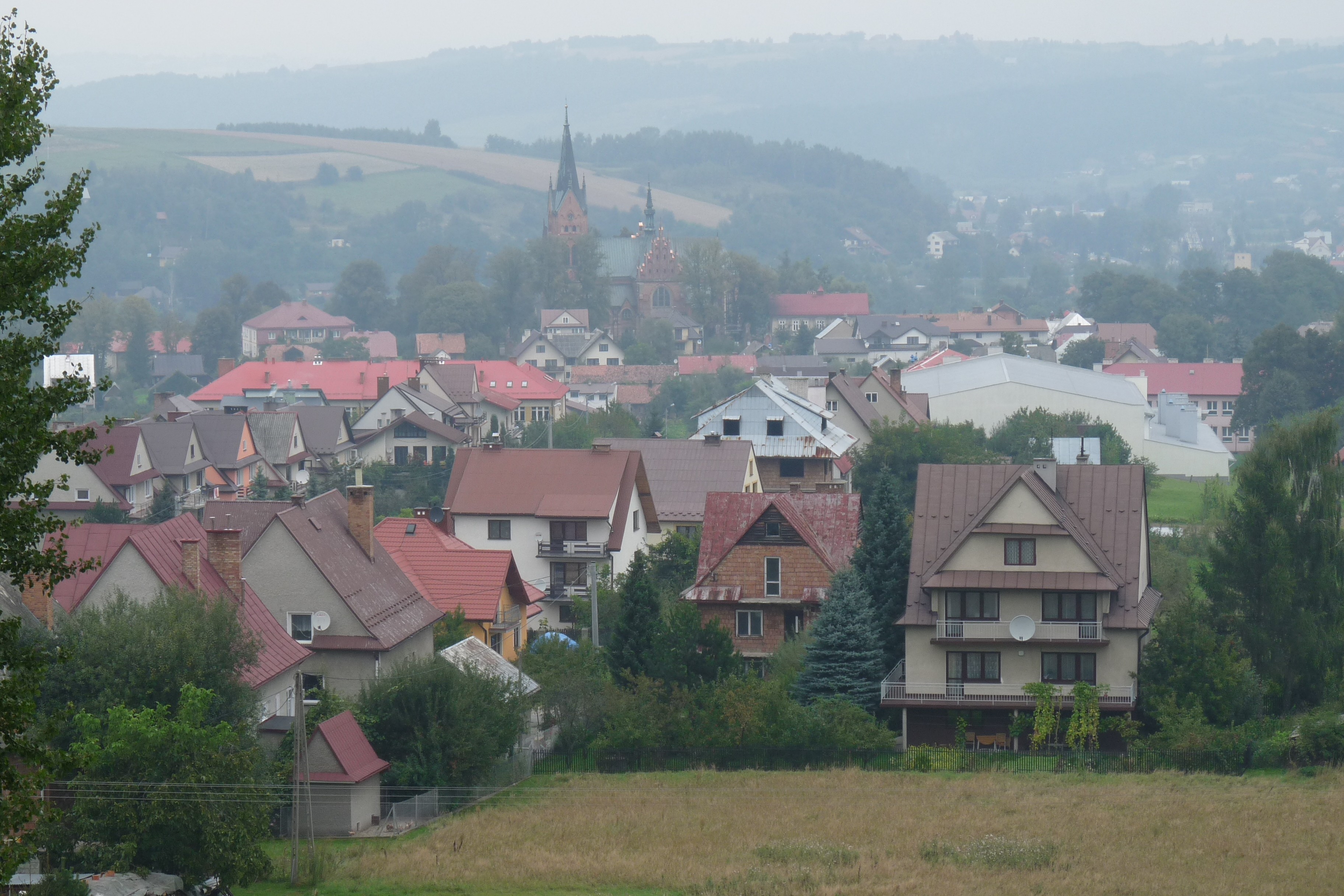 Ciężkowice